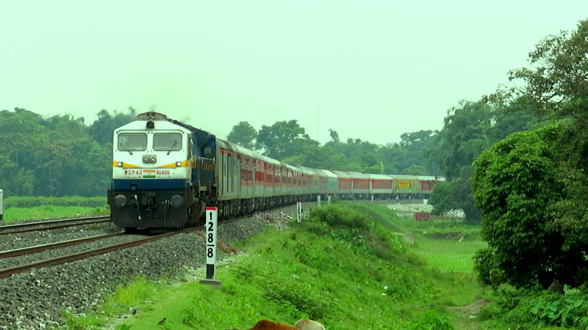 The FIRST RUN of 12377 Sealdah - New Alipurduar #PADATIK EXPRESS with #LHB coaches; please do watch the VIDEO: The train is powered by Andal's dual cab monster WDP4D #40499. The video is captured near New Baneswar (West Bengal)